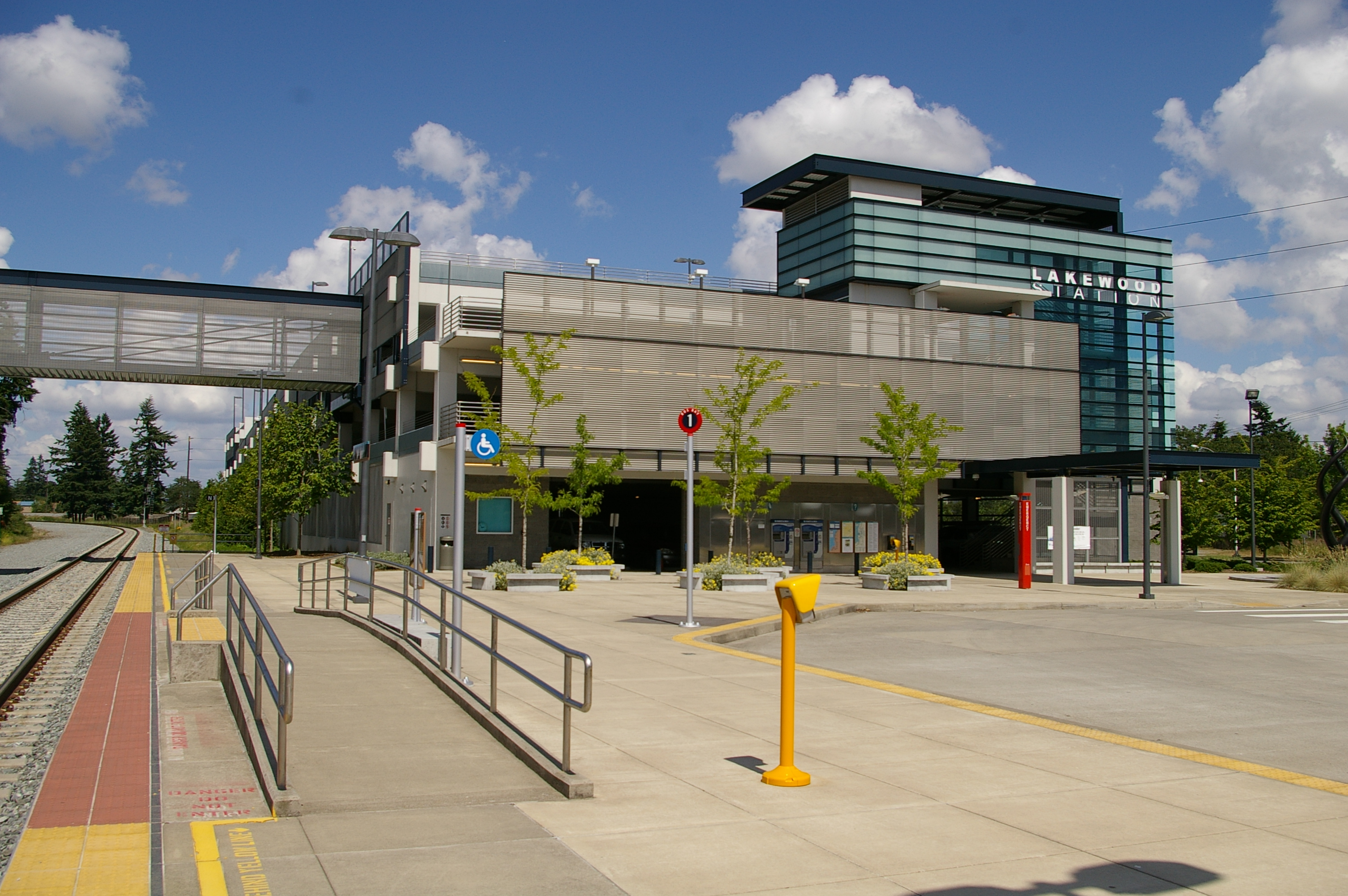 Lakewood WA Sounder Station as seen from the platform looking North